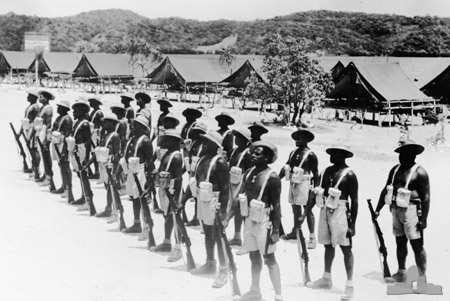 AWM Caption: THURSDAY ISLAND, 1945-10-29. A SQUAD OF THE TORRES STRAIT LIGHT INFANTRY BATTALION TRAINING IN THEIR COMPANY LINES.